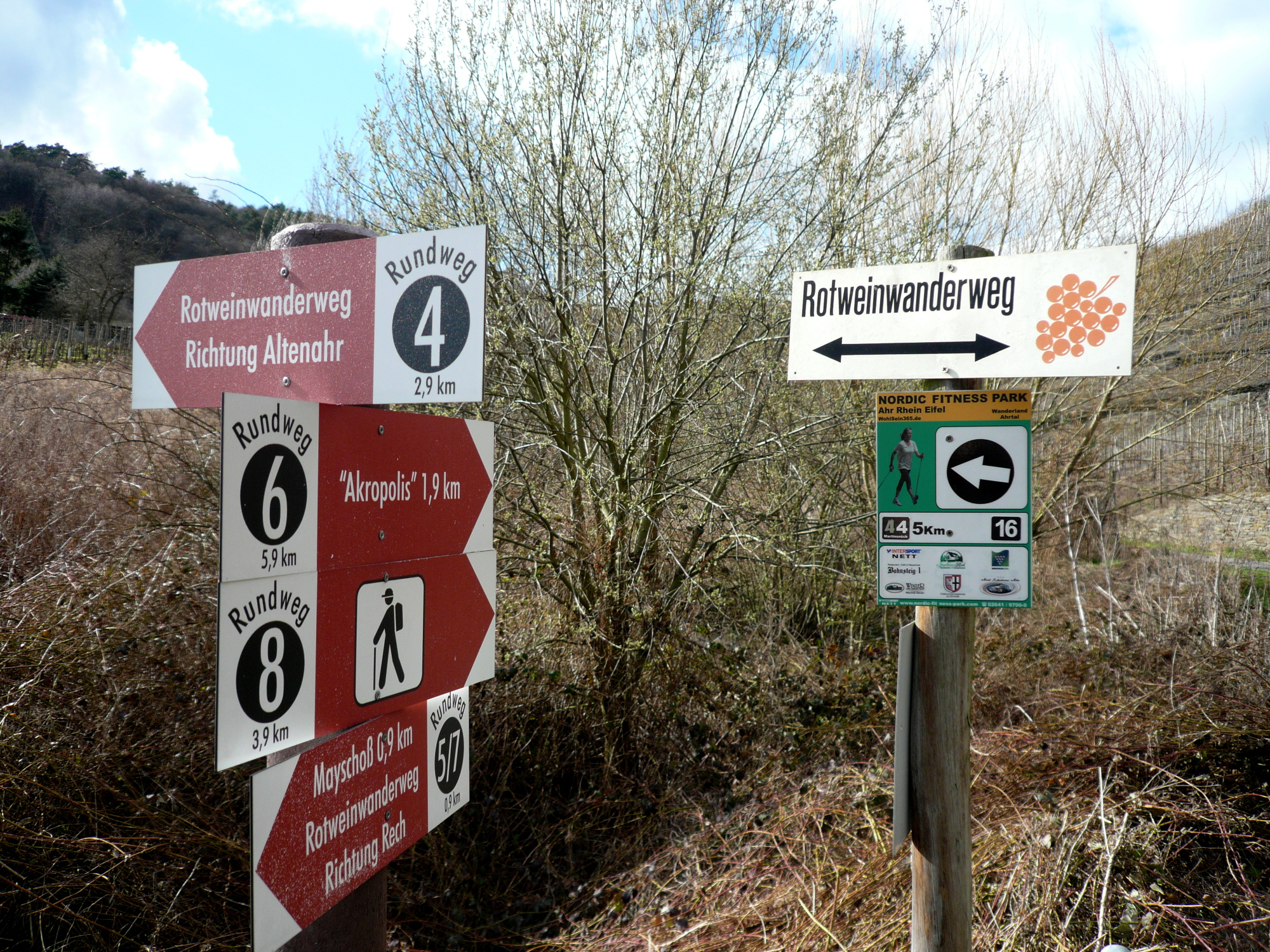 Signs on Rotweinwanderweg, Ahrtal